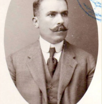 Photograph of Greek politician Michail Sapkas, 1910s.